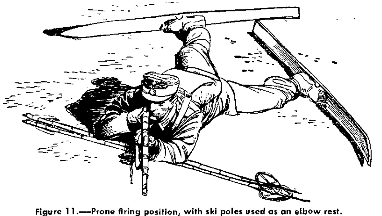 Prone firing position, with ski poles used as an elbow rest.